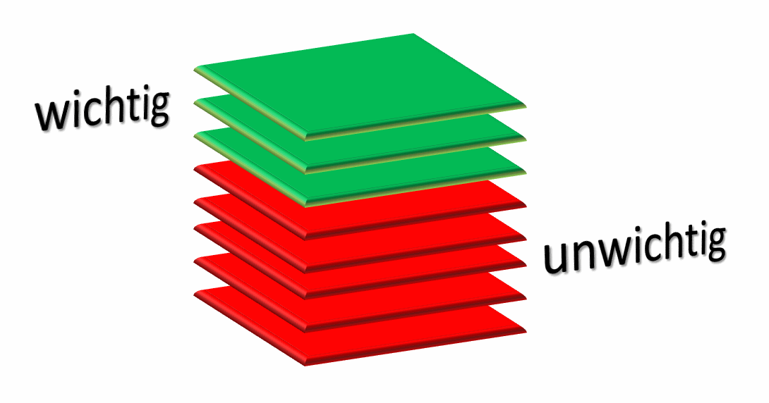 Binary Priorisation - Stage 3